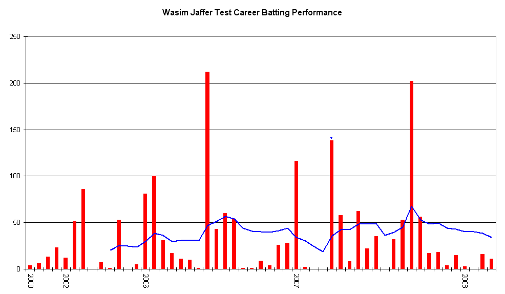 This graph details the Test Match performance of Wasim Jaffer. It was created by Raven4x4x. The red bars indicate the player's test match innings, while the blue line shows the average of the ten most recent innings at that point. Note that this average cannot be calculated for the first nine innings. The blue dots indicate innings in which Jaffer finished not-out. This graph was generated with Microsoft Excel 2002, using data from Cricinfo [1] and Howstat [2]. The information in this chart is current as of 2 February, 2008.